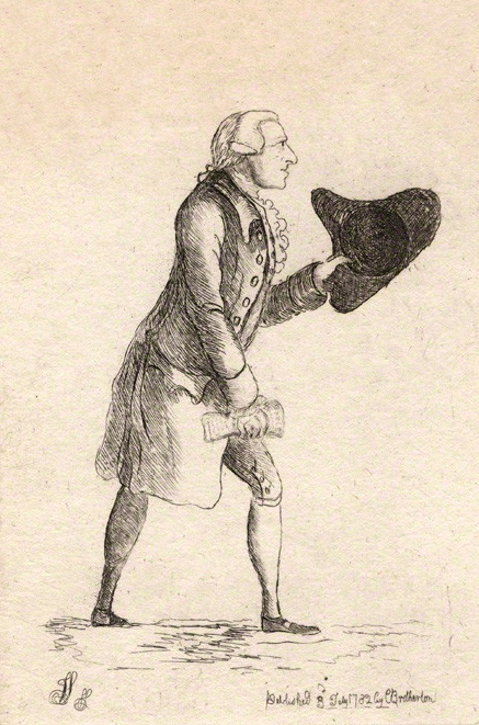 Portrait of lord John Cavendish